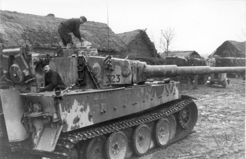 Information added by Wikimedia users.Schwere Panzer-Abteilung 502 (Distinctive numeral placement, size, style, lack of mudflaps)[1]